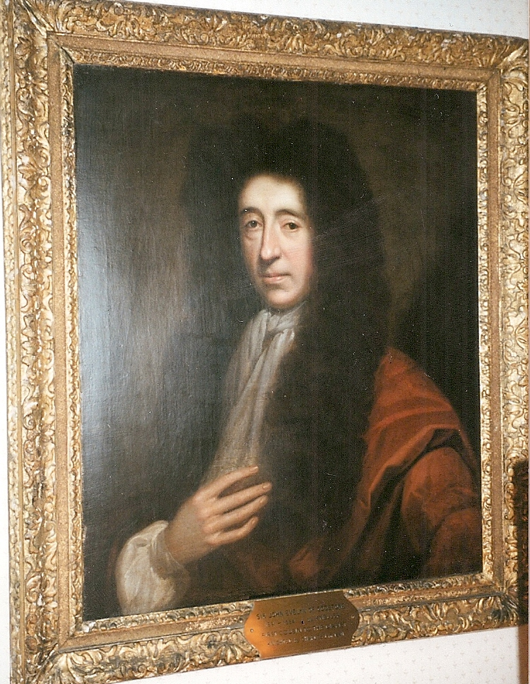 Sir John Evelyn of Godstone, 1st & last Bt